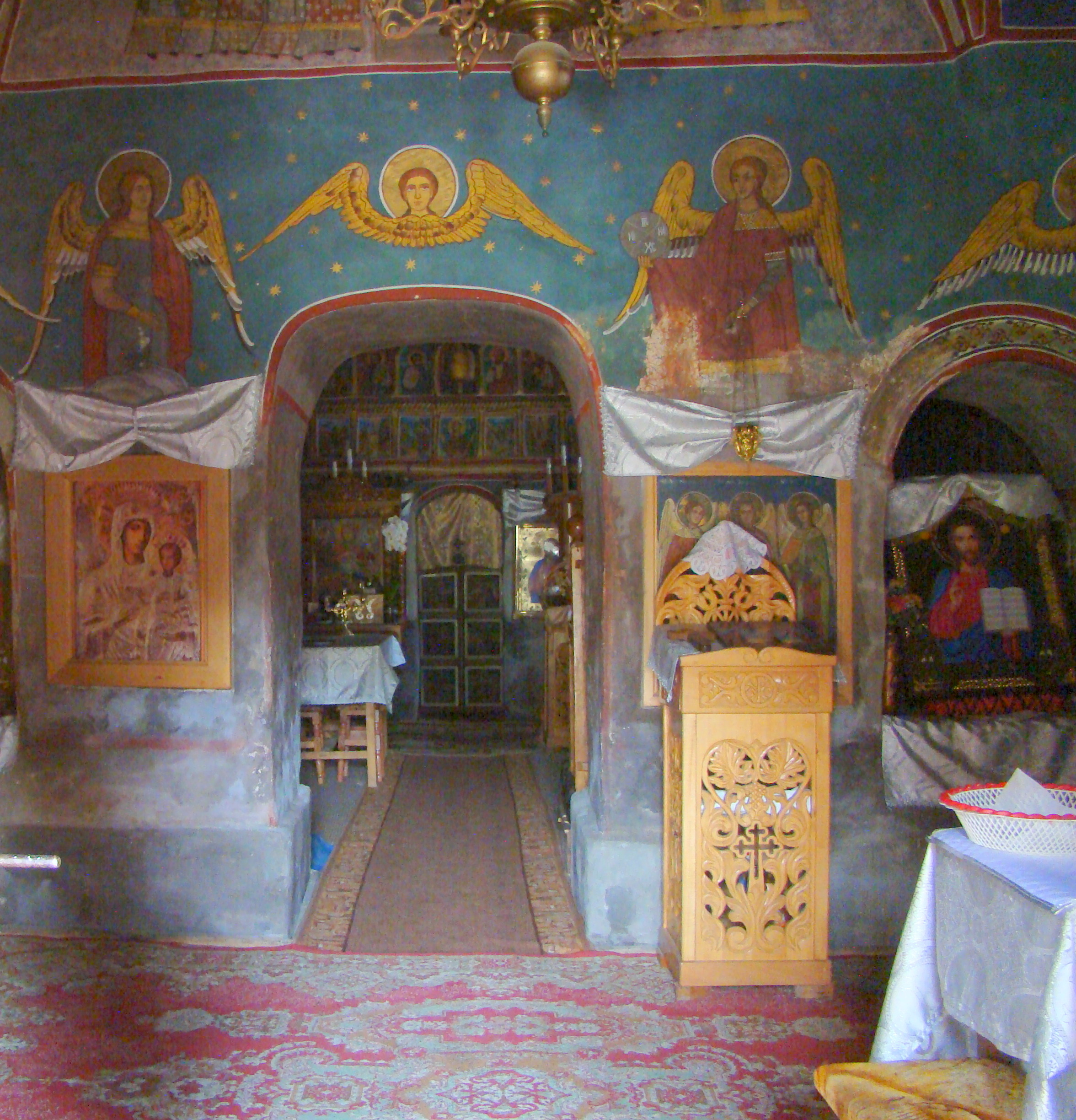 Archangels' church in Olănești, Vâlcea county, Romania